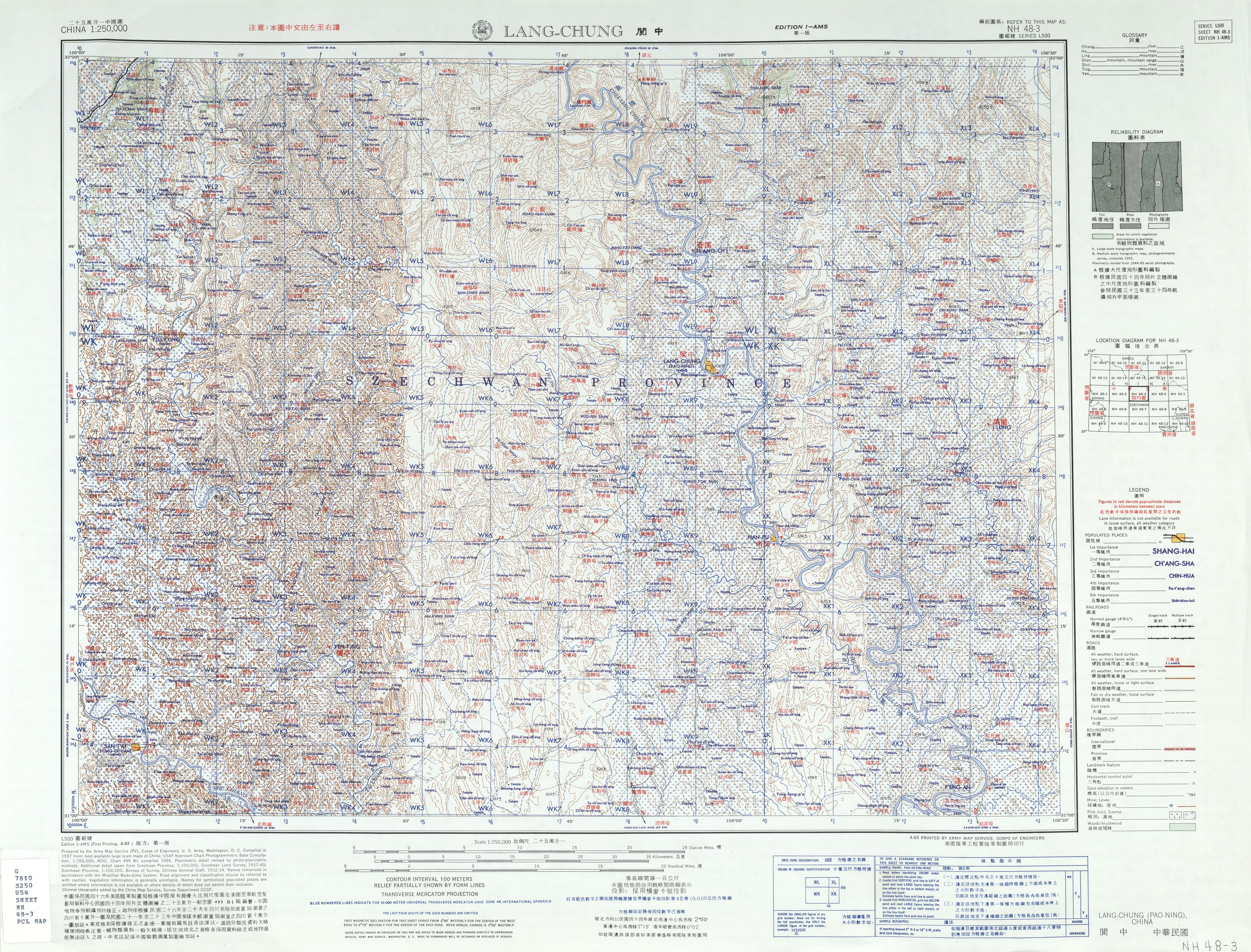 China AMS Topographic Maps